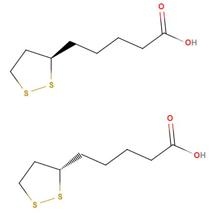 Top: (R)-lipoic acid Bottom (L)-lipoic acid